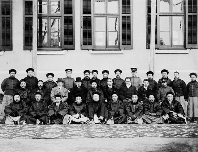 Hon. W.L. Mackenzie King (2nd row, 4th from right) during a visit to China.